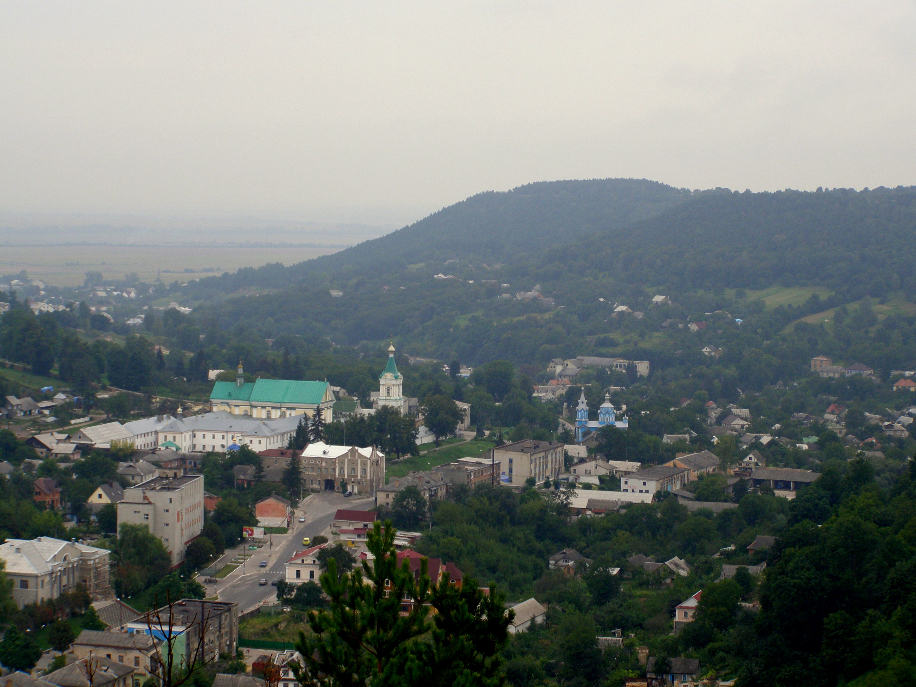 Kremenets, view from the castle, in the centre Ukrainian Orthodox Monastery (green roof) and wooden church (blue)